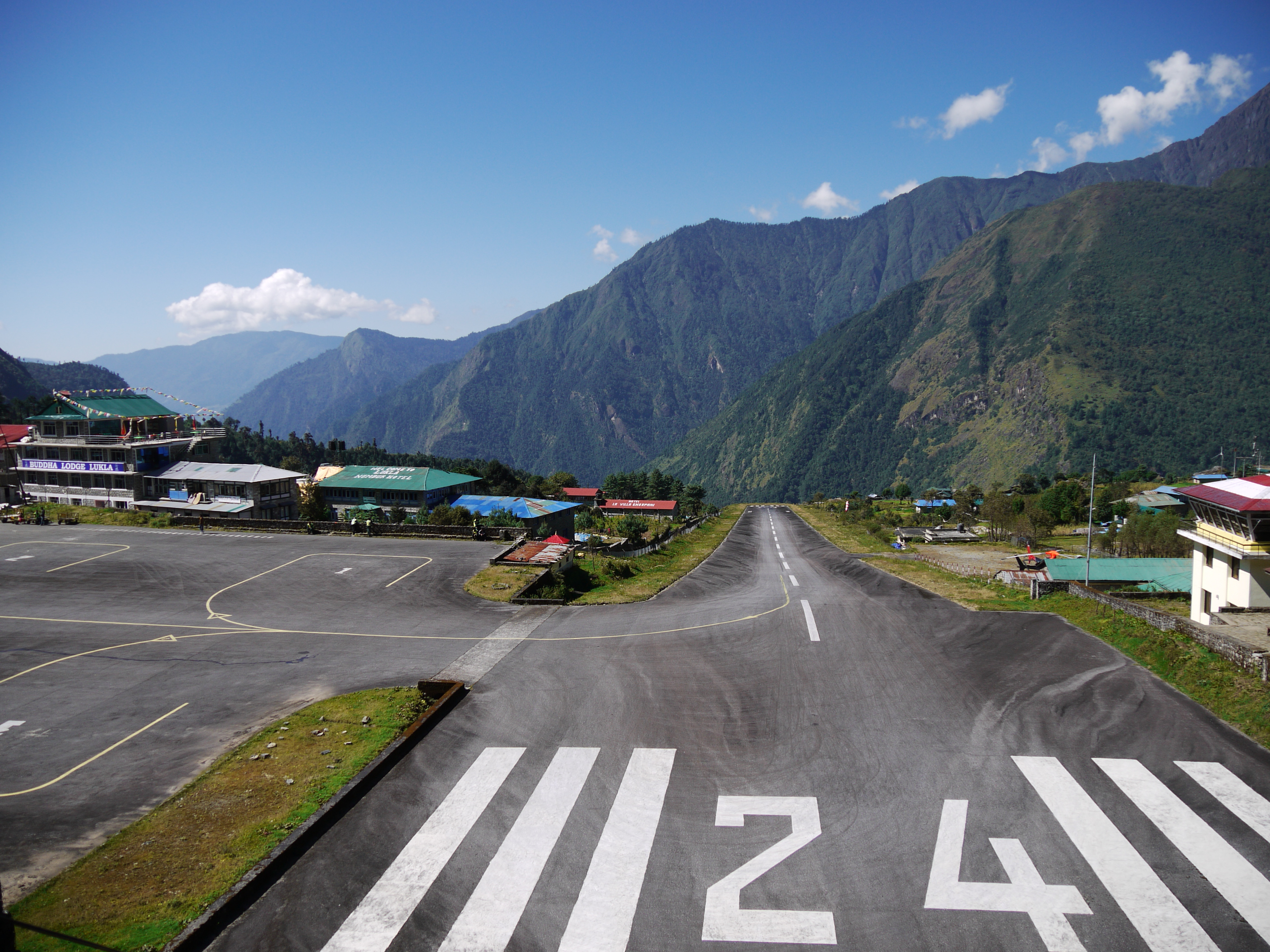 Runway 24 at Lukla Airport